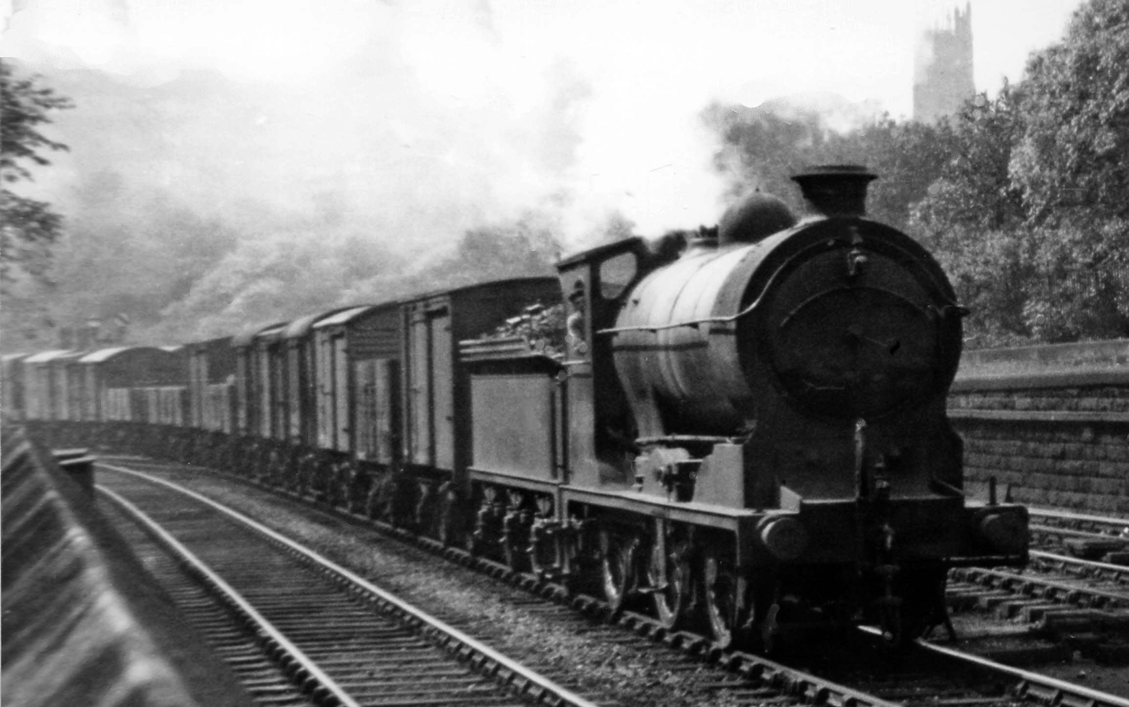 Eastbound freight in Princes Street Gardens, Edinburgh. View westward, towards Haymarket and all points West and North. The train is about to pass through Waverley Station, which was not normally allowed in daytime, freight traffic being taken round on the South Suburban Line, but this was just after the Great Floods of 13 August 1948 and traffic was no doubt disrupted -- see NT2573 : Three light engines backing into Edinburgh Waverley Station and 2321049. The locomotive is a large Reid J37 0-6-0, No. 4592.